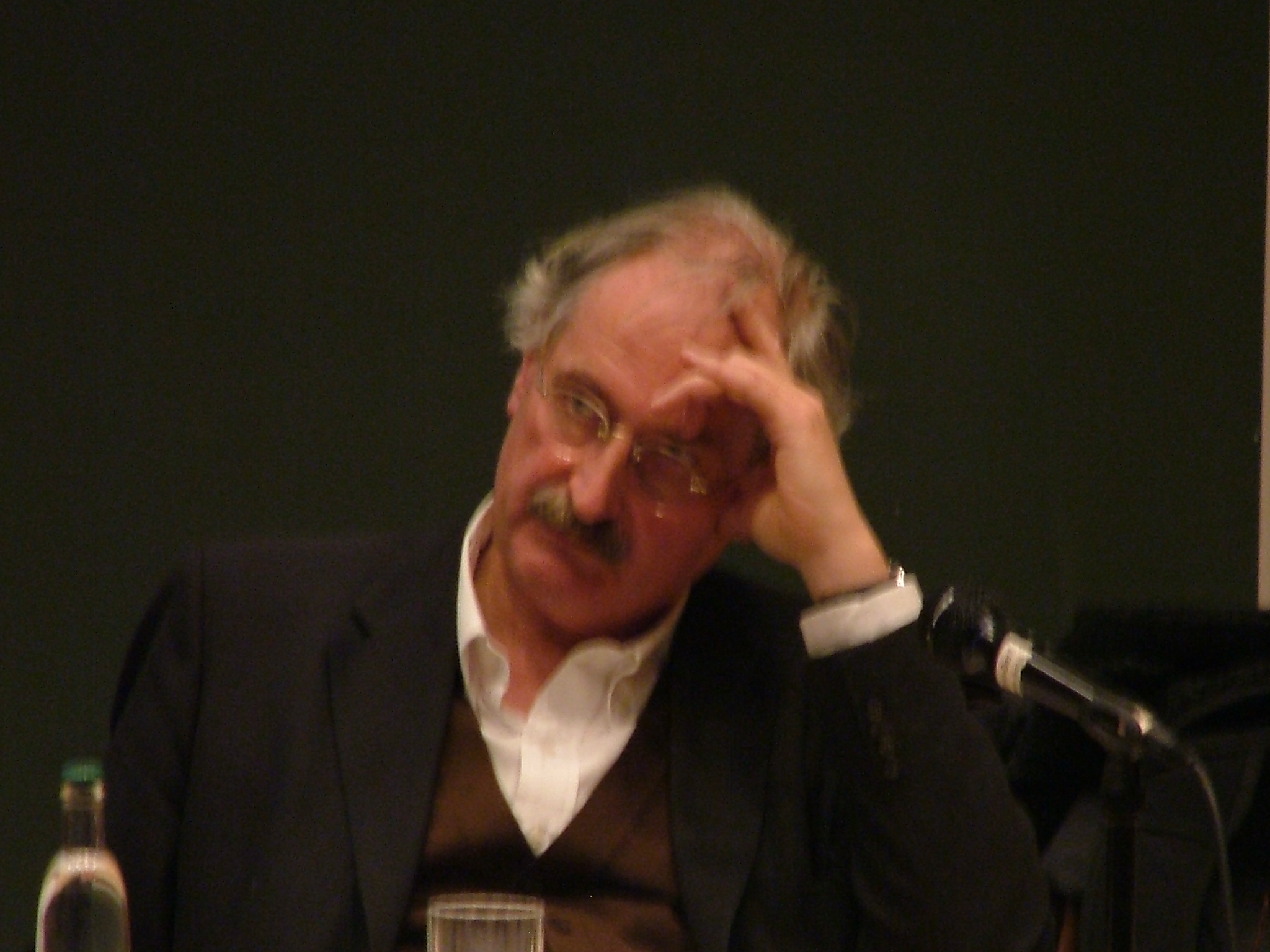 Facepalmby Axel Honneth shown 2008 in Jena